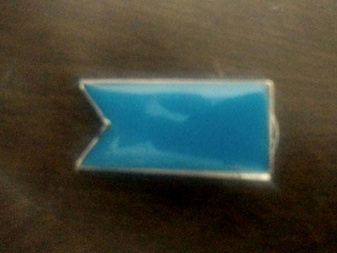 A badge wishing to recapture Japanese abductees victims abducted by North Korea